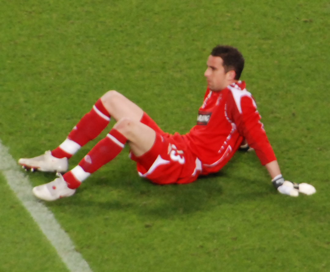 Neil Alexander from Uefa Cup Final 2008